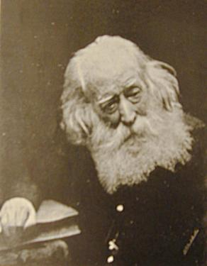 Henry Perigal, English mathematician (born 1801)